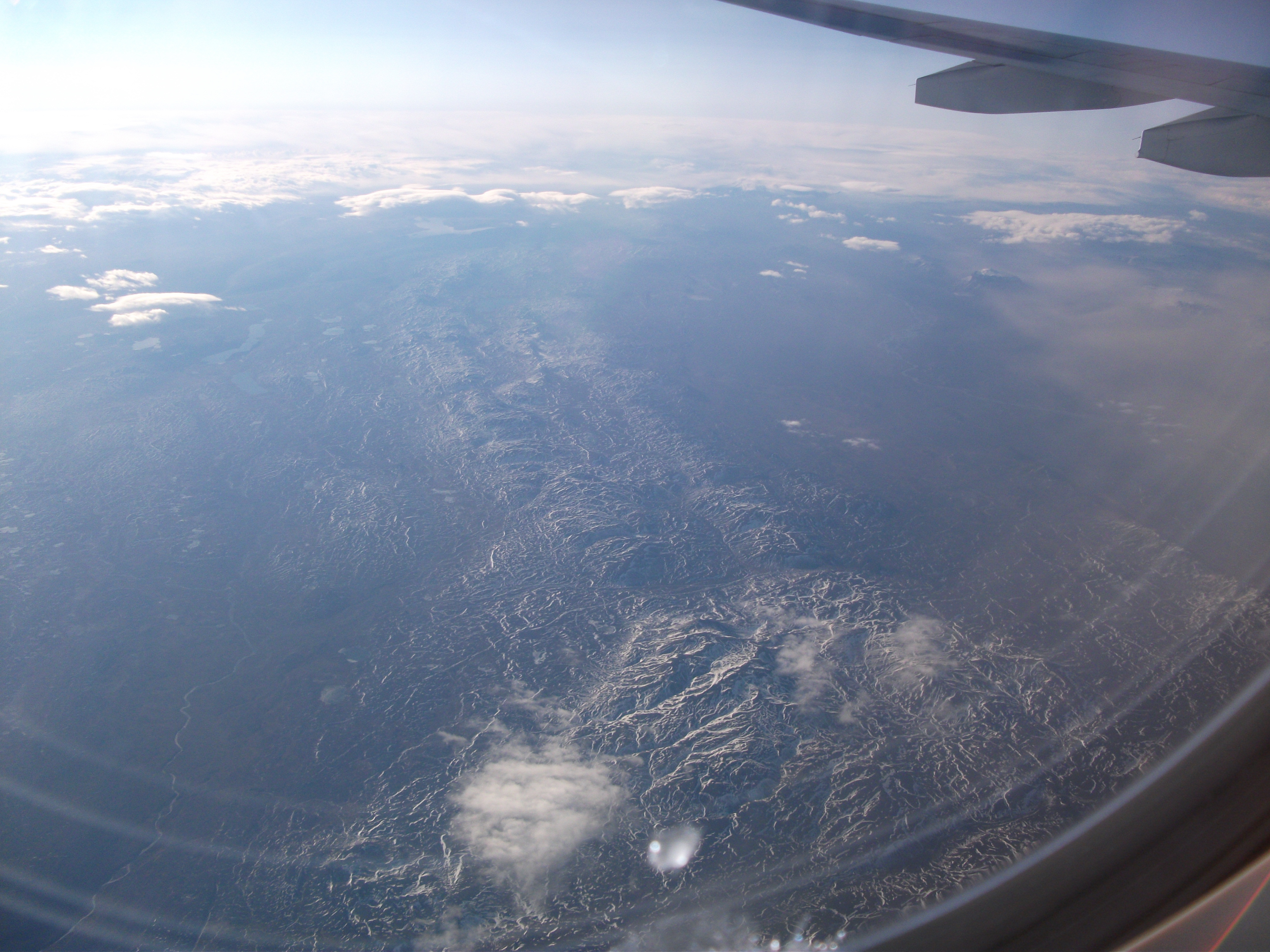 The divergent zone between the North American plate and the Eurasian plate photographed over Iceland